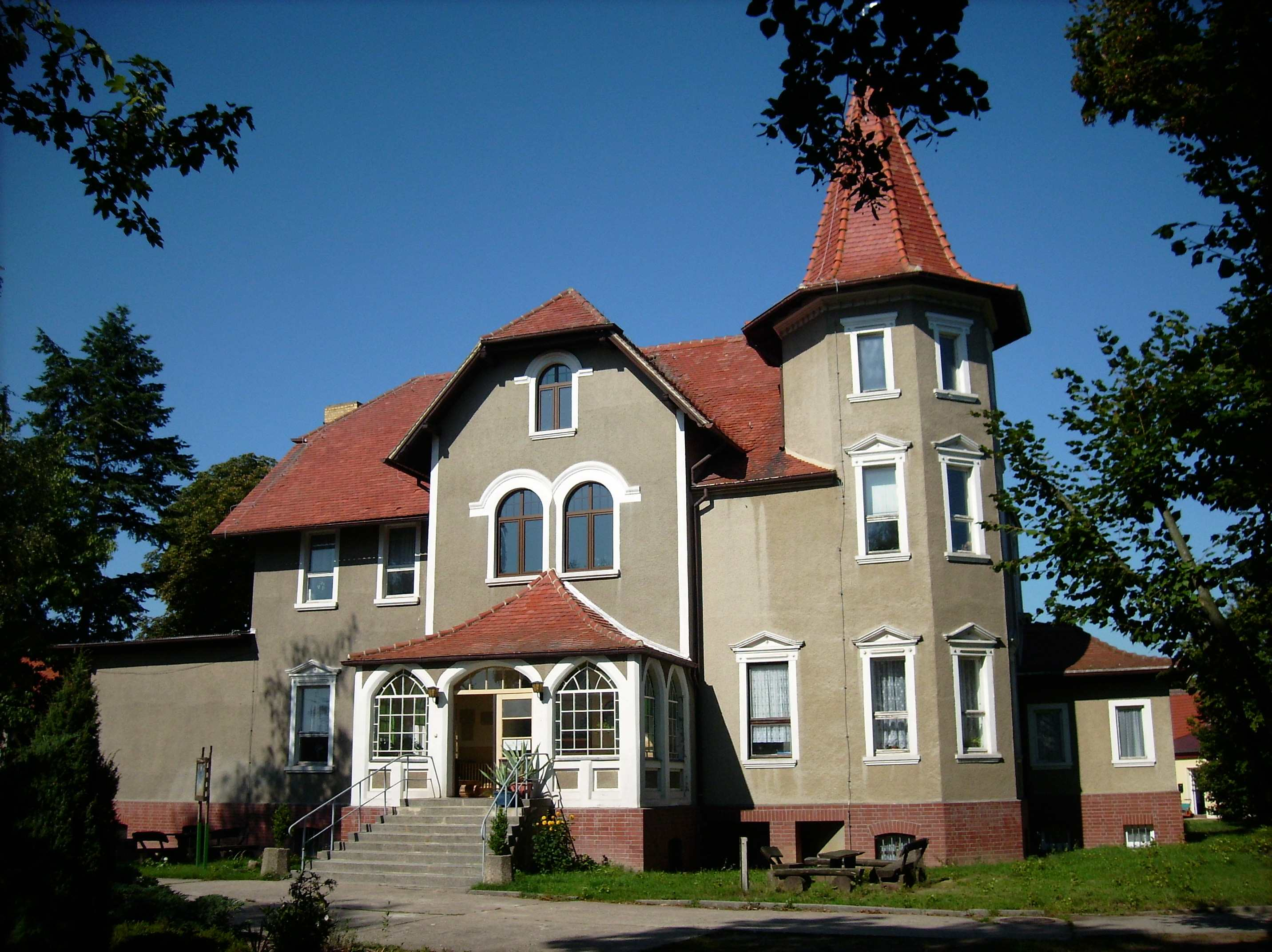 Erbrichtergut Manor in Pressel (Laussig, Nordsachsen district, Saxony)